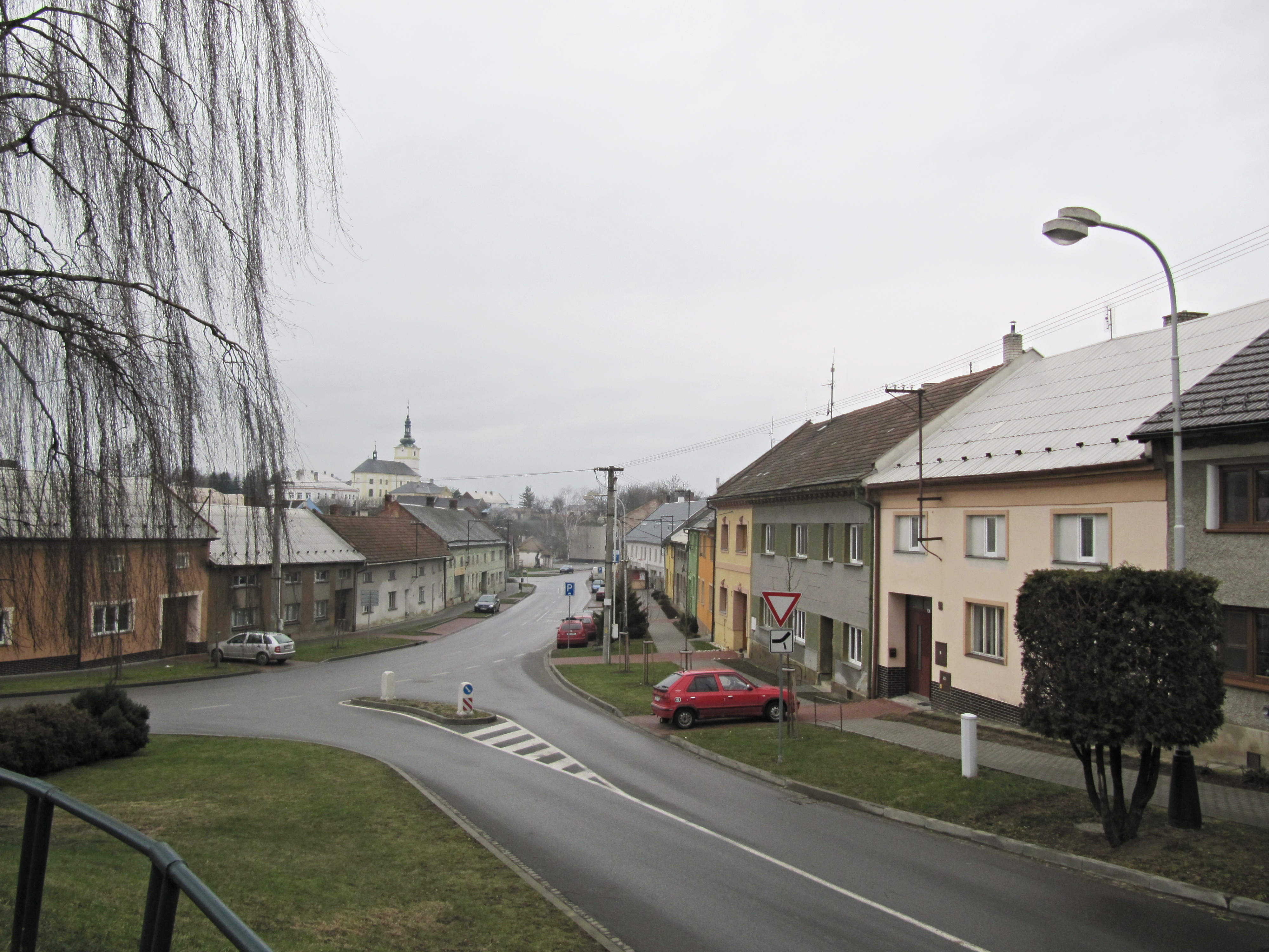 Velký Týnec, Olomouc District, Czech Republic.